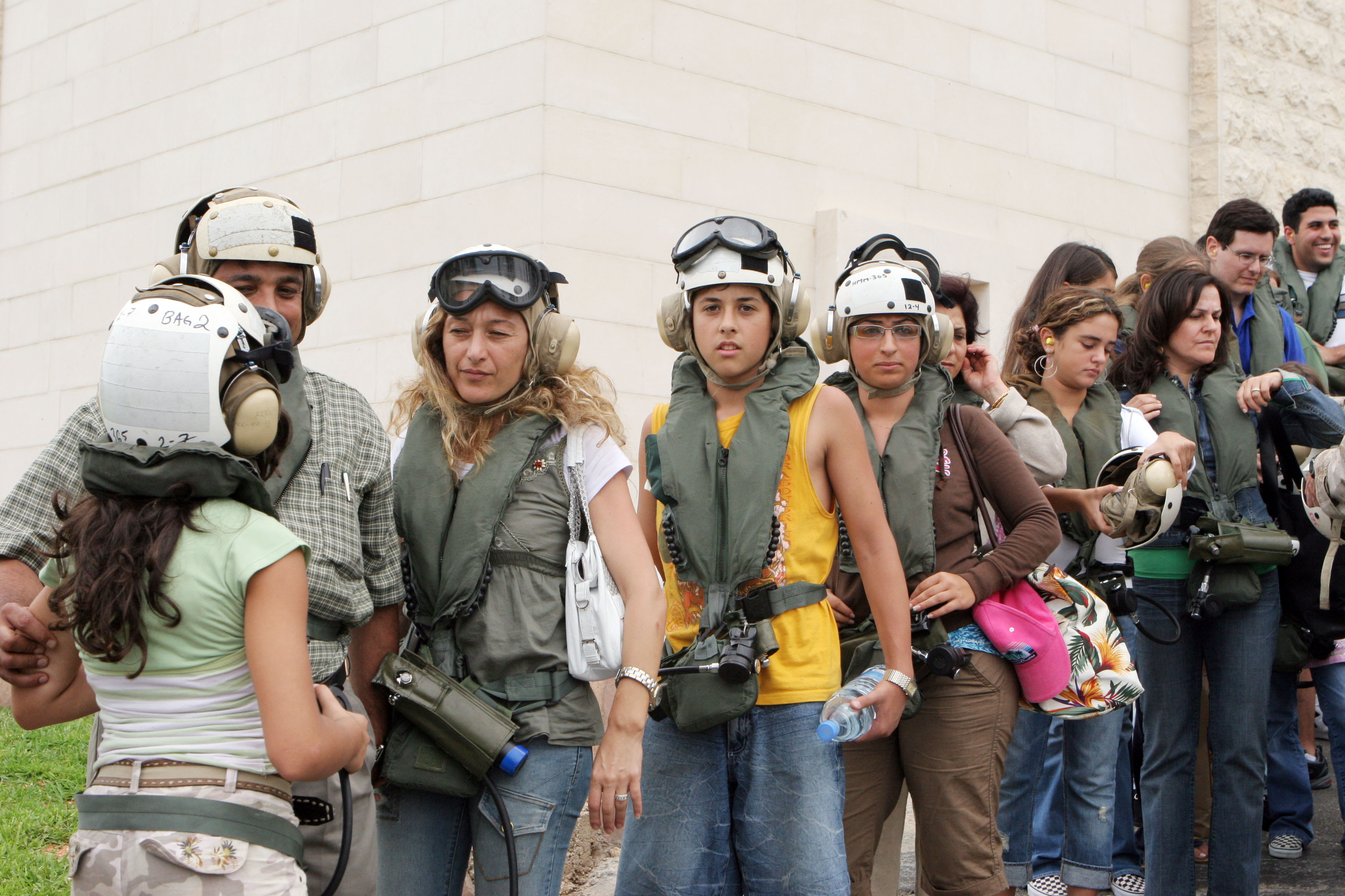 U.S. citizens put on their cranial helmets and life preservers as they wait to board a CH-53 Super Stallion helicopter at the U.S. Embassy in Beirut, Lebanon, for a flight to Cyprus on July 20, 2006. At the request of the U.S. Ambassador to Lebanon and at the direction of the Secretary of Defense, the United States Central Command and elements of Task Force 59 are assisting with the departure of U.S. citizens from Lebanon.